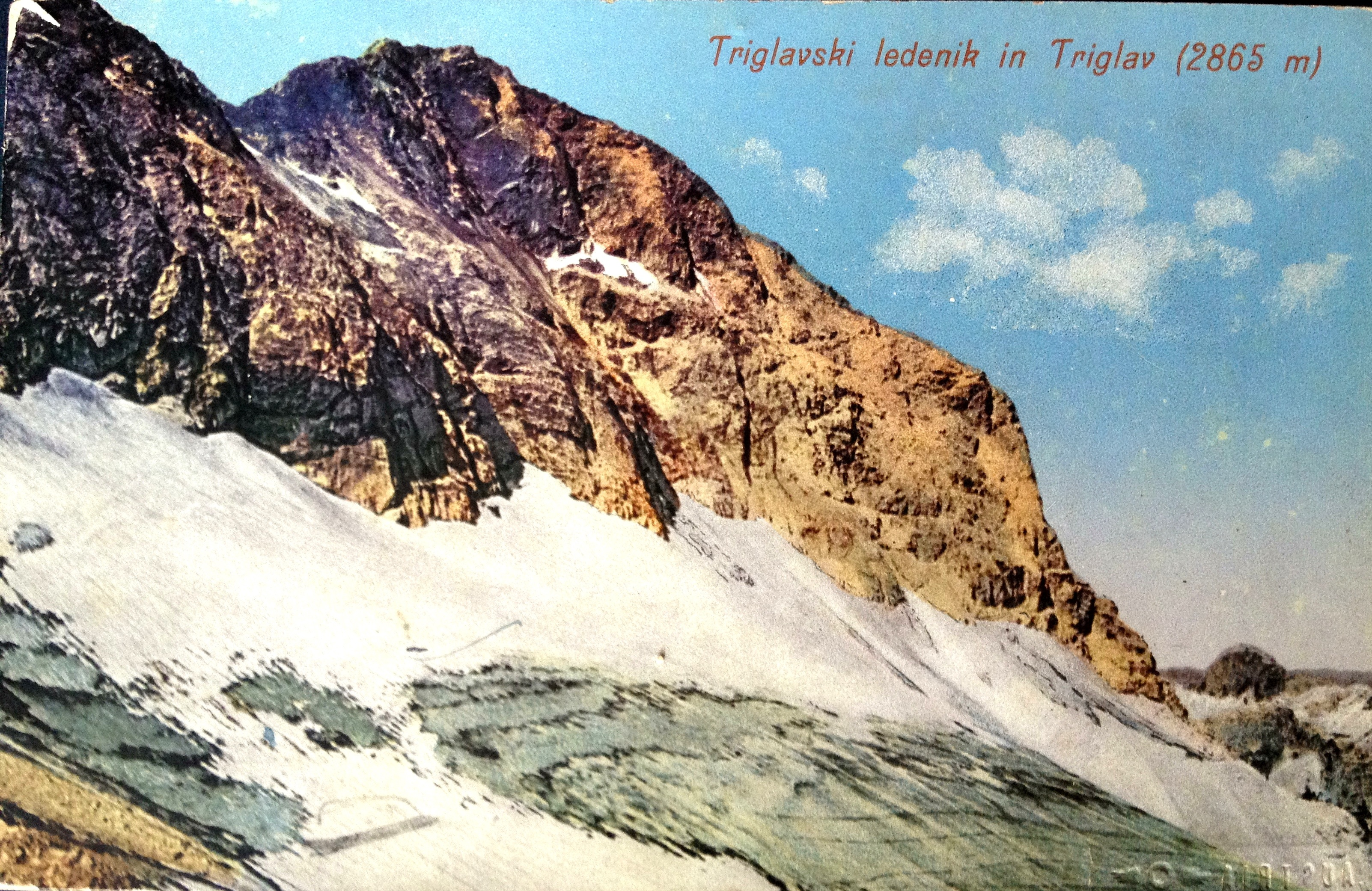 Postcard of Triglav